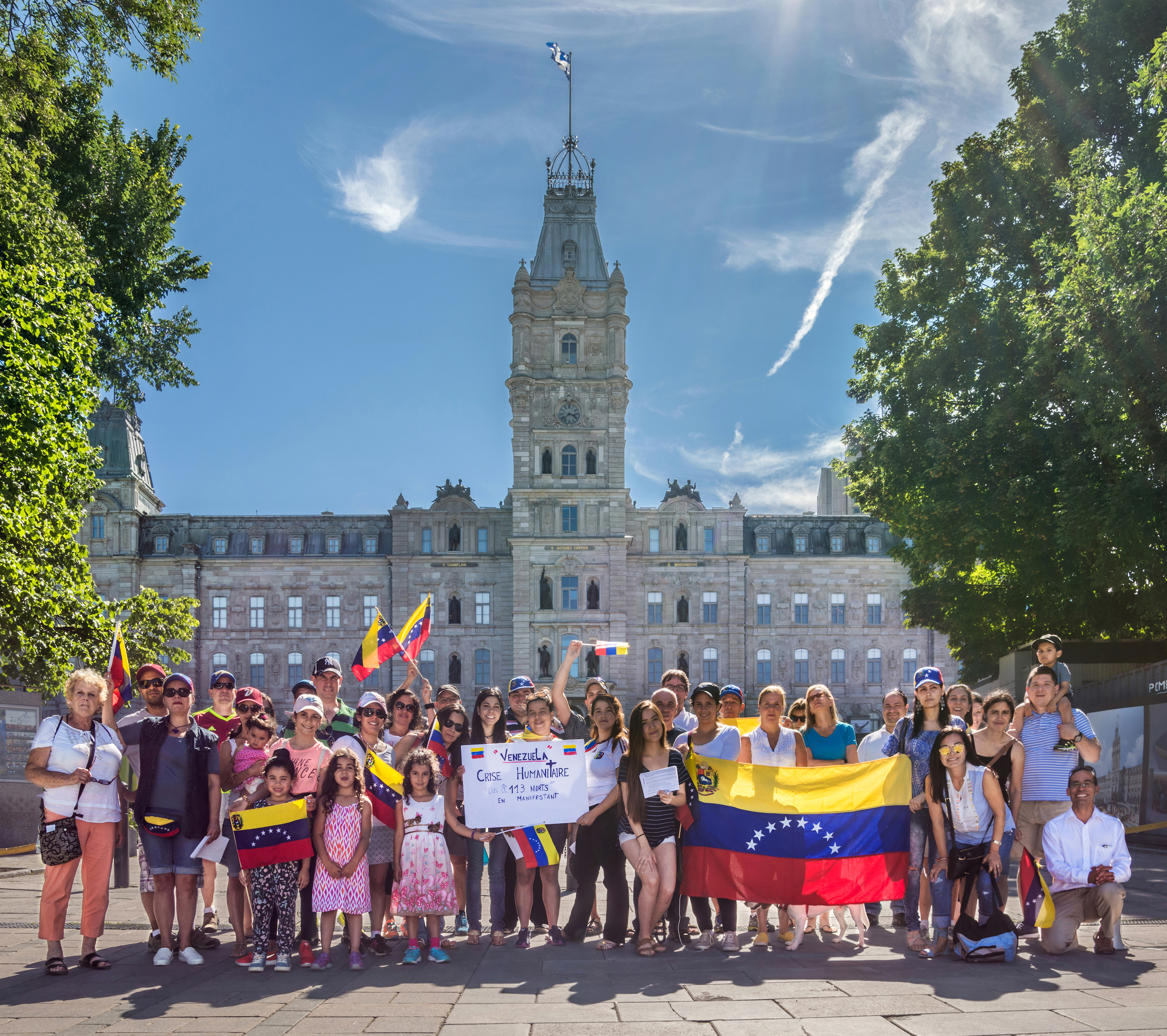 Protests opposing Venezuelan Bolivarian Revolution in Colline parlementaire de Québec, Québec city, Canada